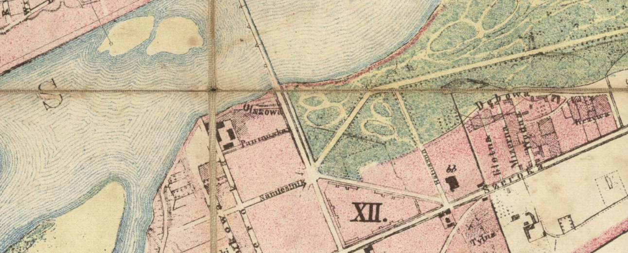 Olszowa Street on the plan of the town of Warsaw, 1873